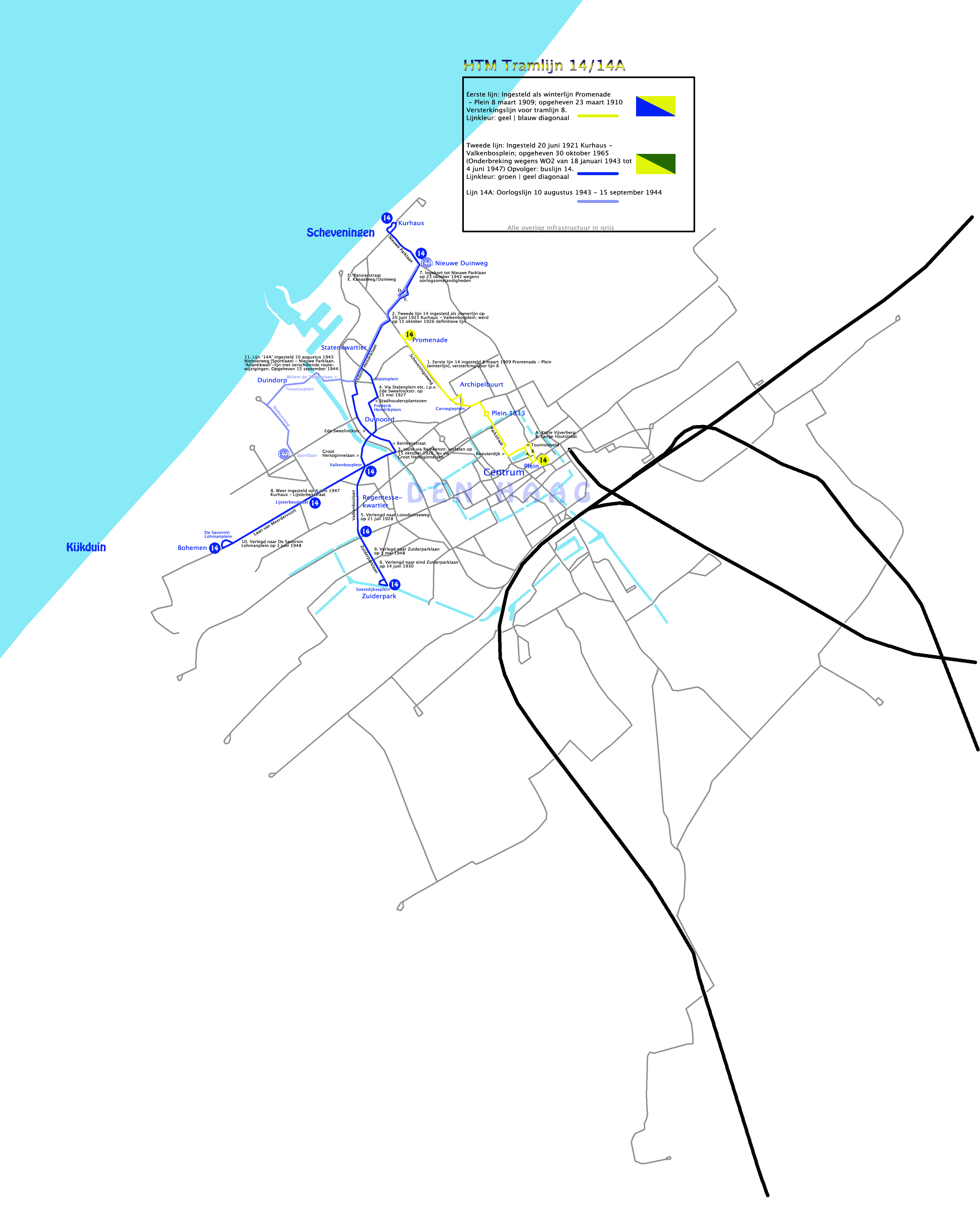 Tram routes 14, The Hague, The Netherlands